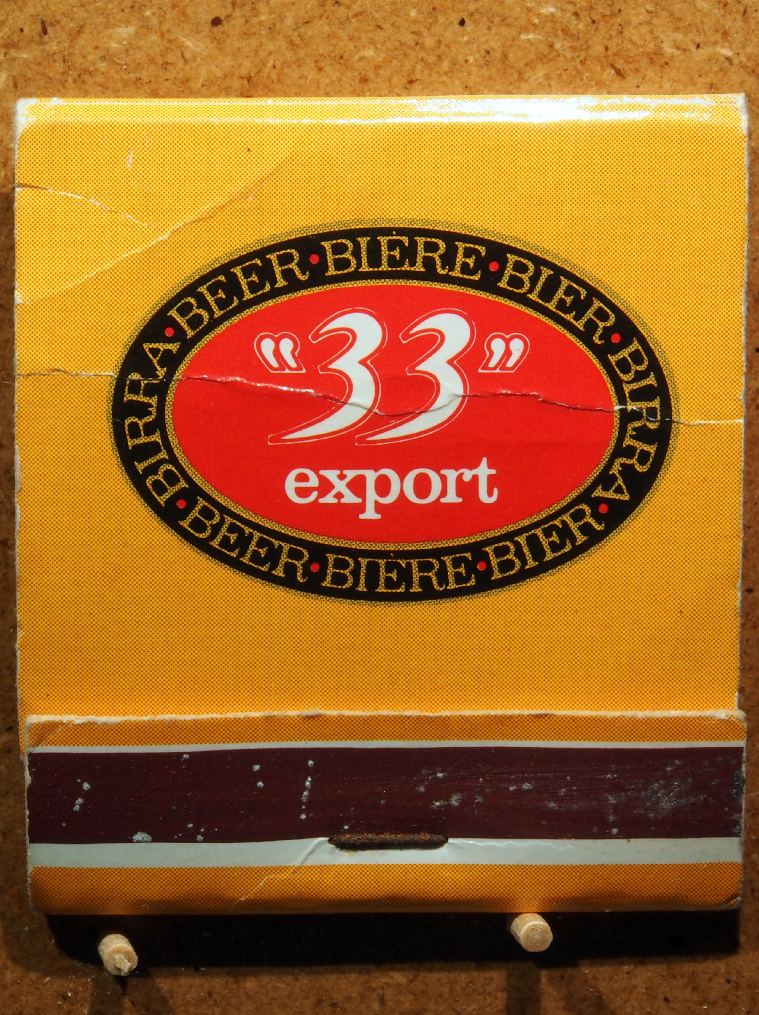 Matchbook - La Dry 33 biere.